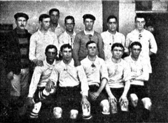 Uruguay team with the light blue (la celeste) shirt, worn for the first time in that match.